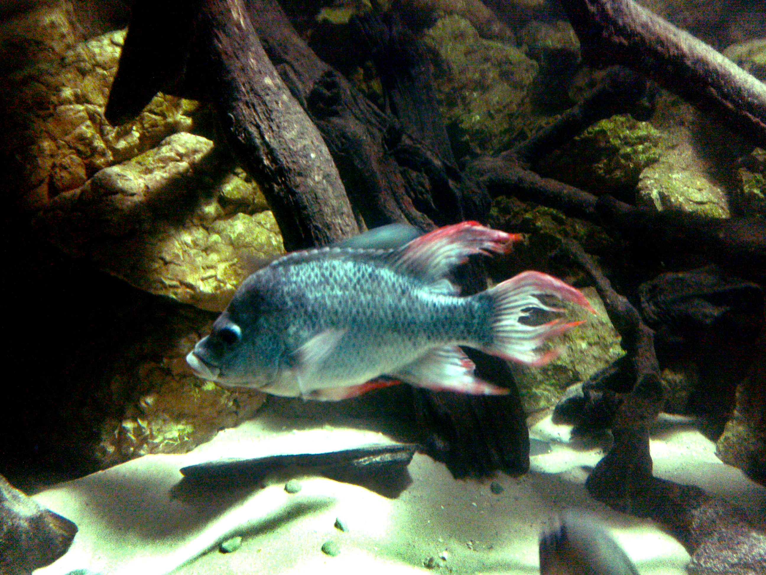 Ptychochromis insolitus, a native of Madagascar, in London Zoo. Note: File-name is misleading. No such thing as "Prychochromis mangarahara", but Ptychochromis insolitus, which is the species on the photo, was known as Ptychochromis sp. nov. 'Mangarahara' until officially described (from a comment on Ptychochromis insolitus)